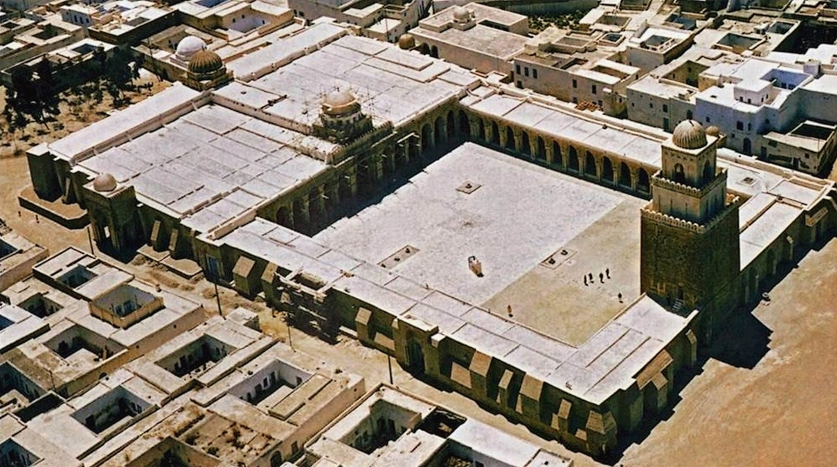 An aerial view of the Great Mosque of Kairouan (Tunisia) dating from 1964.